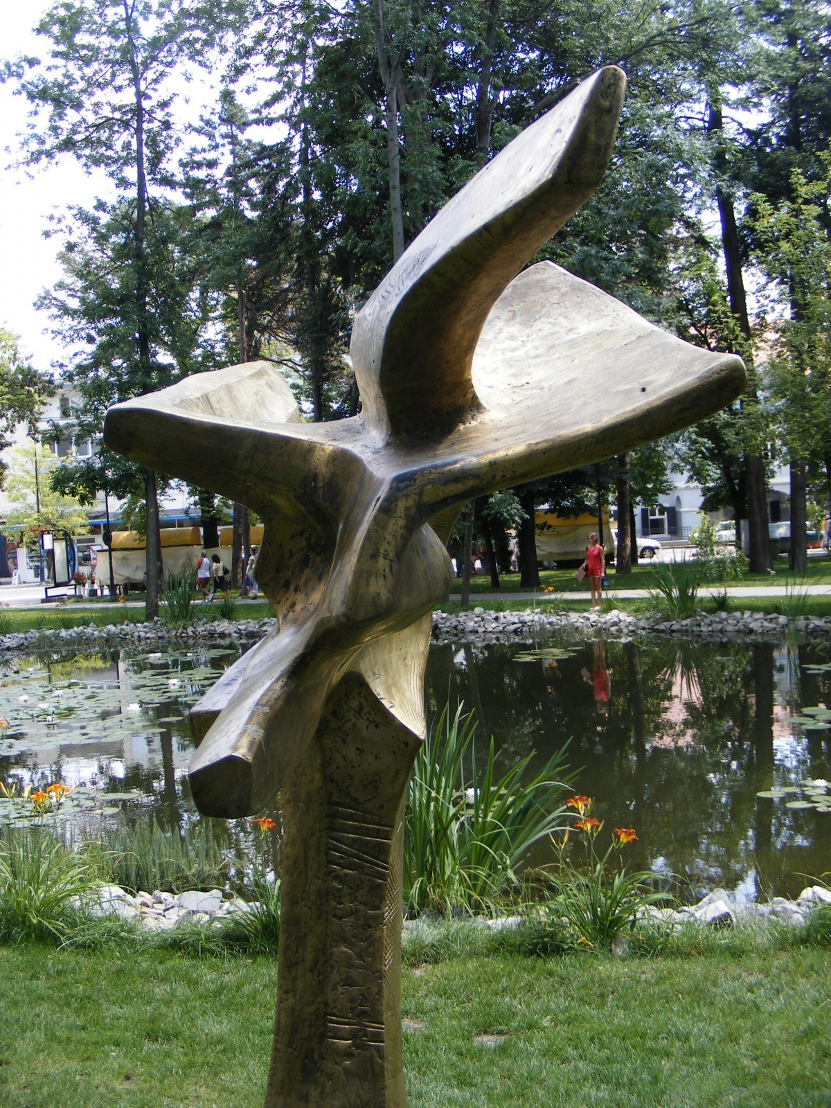 Nike statue, Sfântu Gheorghe, Romania